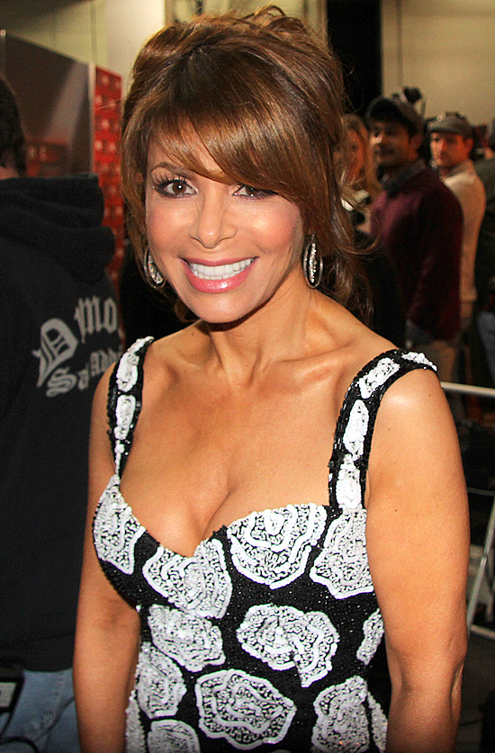 Paula Abdul at the The X Factor USA Backstage 2011.